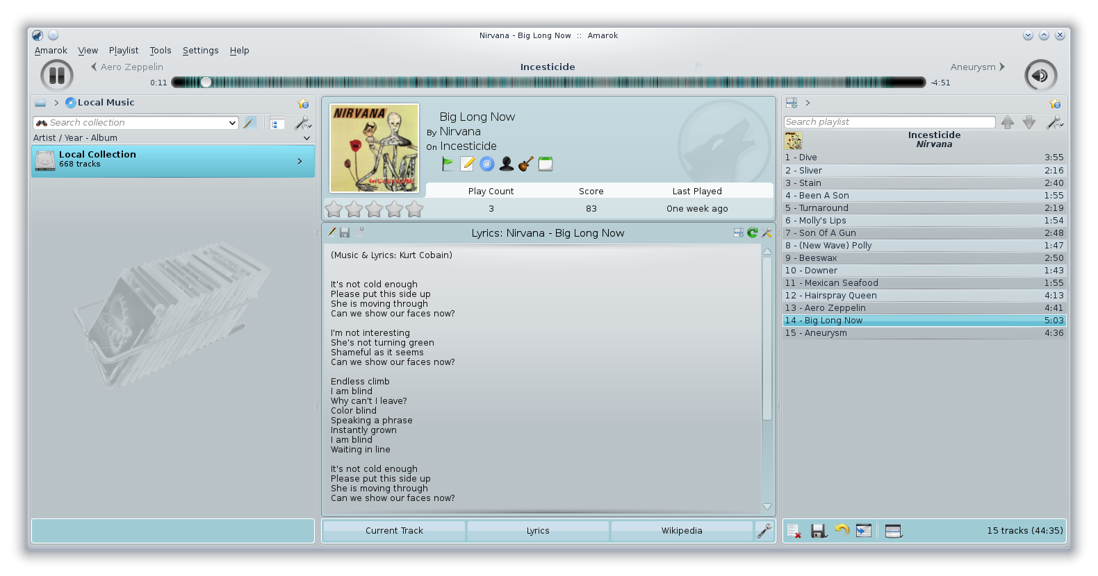 Screen shot of Amarok 2.6 ("In Dulci Jubilo") on KDE 4.9